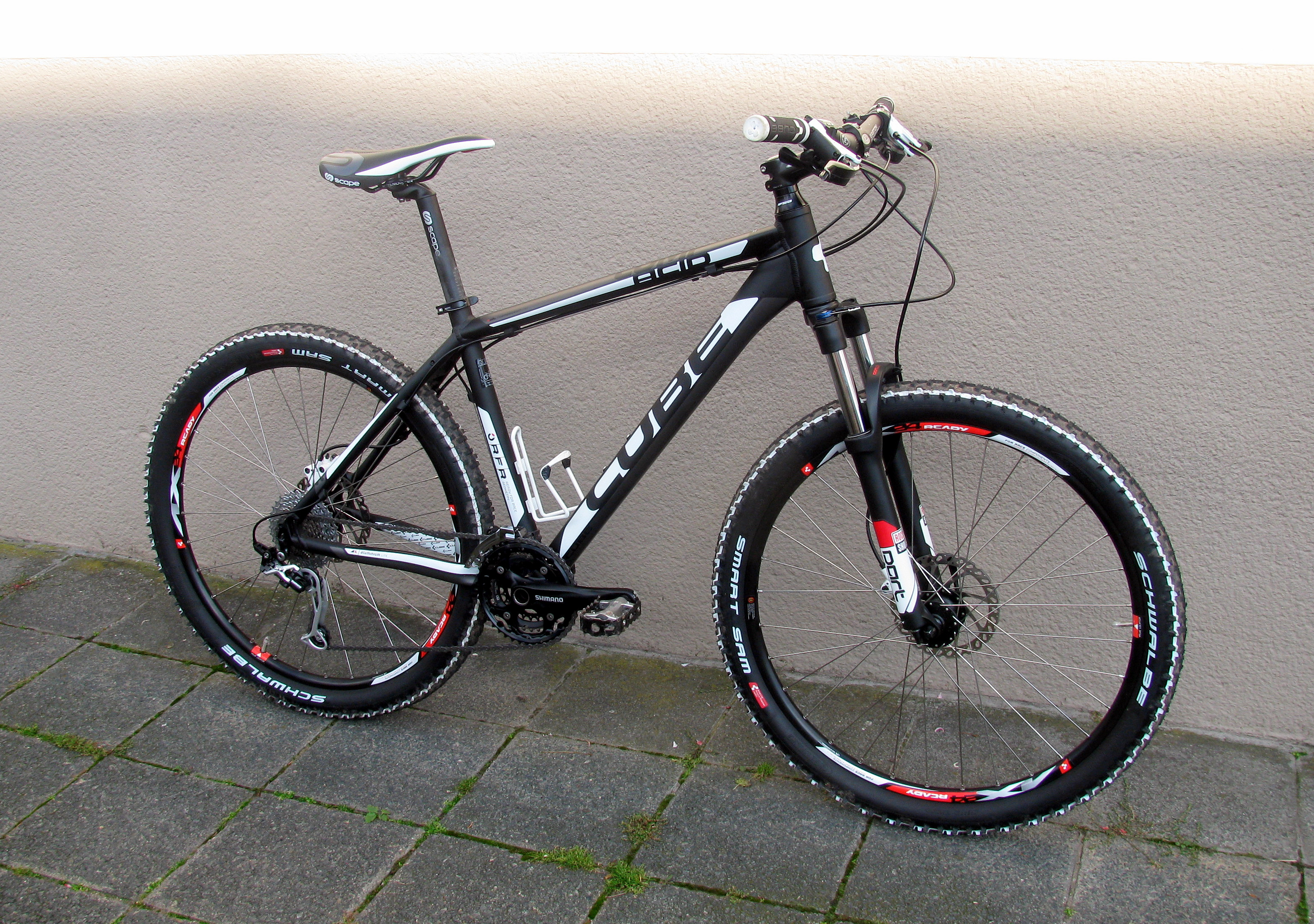 A Mountainbike, model "Acid 2011" from CUBE